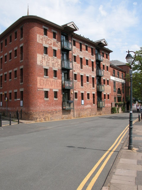 Former Warehouse, Worcester. This former warehouse building overlooking the river Severn has been converted into residential accommodation.